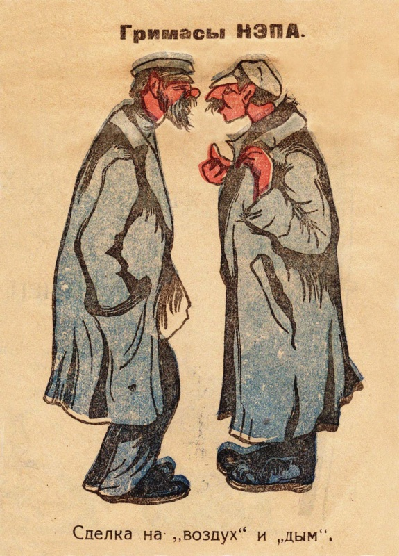 "The deal on "air" and "smoke"", from the series "Grimaces of NEP", 1922. Artistː Veniamin Romov.